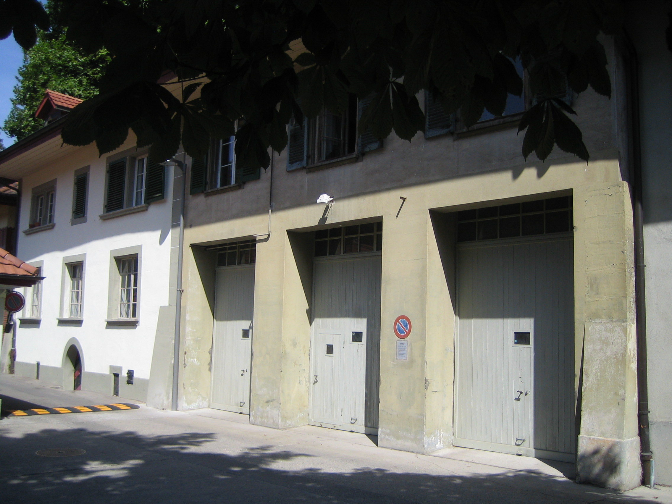 Buildings of the former Frisching Faience Manufactory at Uferweg No. 4 in Bern (the large doors are of later date)